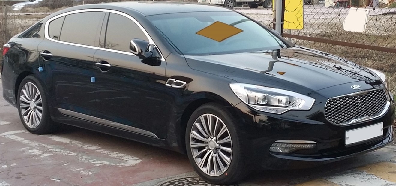 Kia The New K9